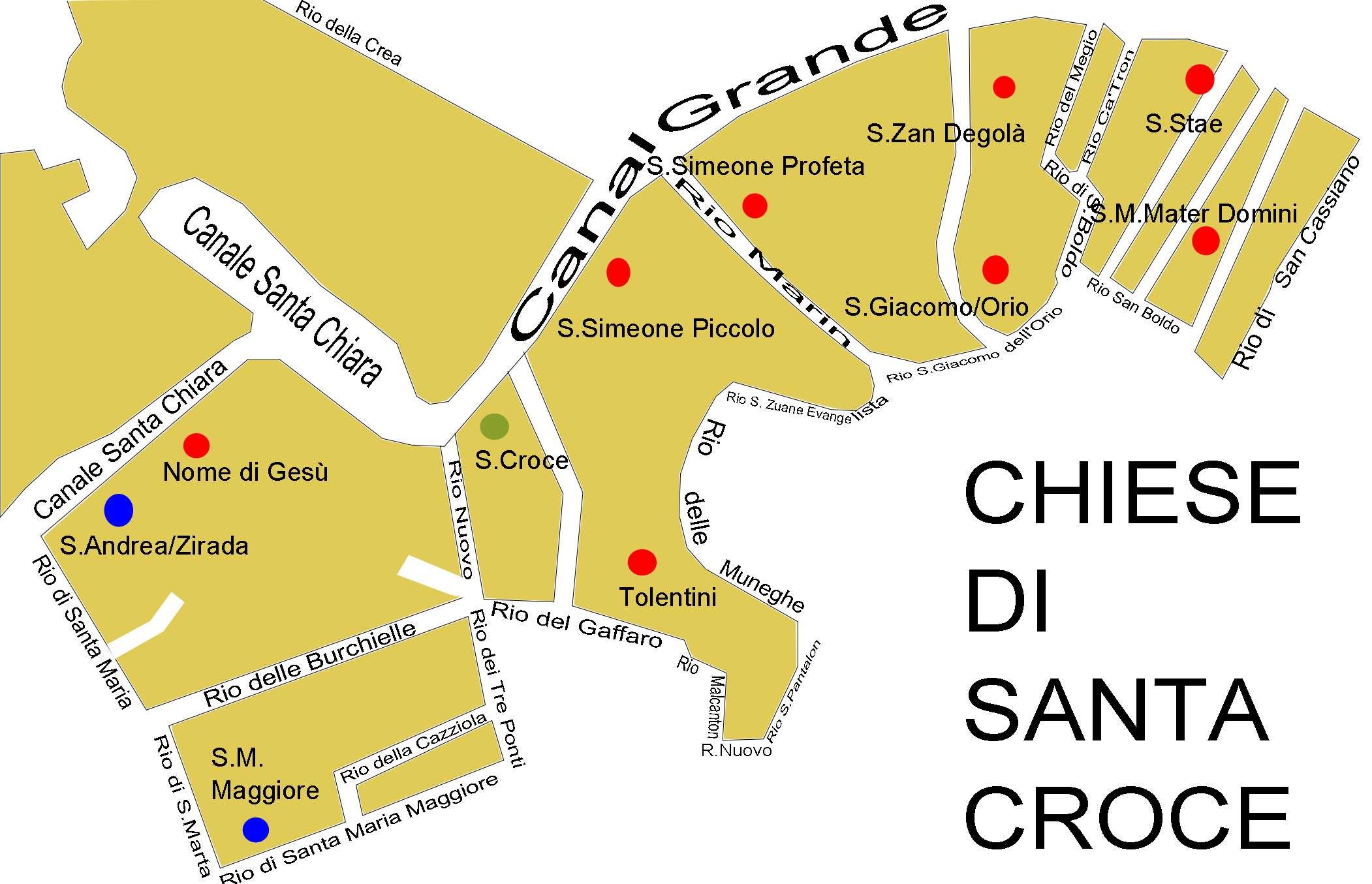 Churches of Santa Croce